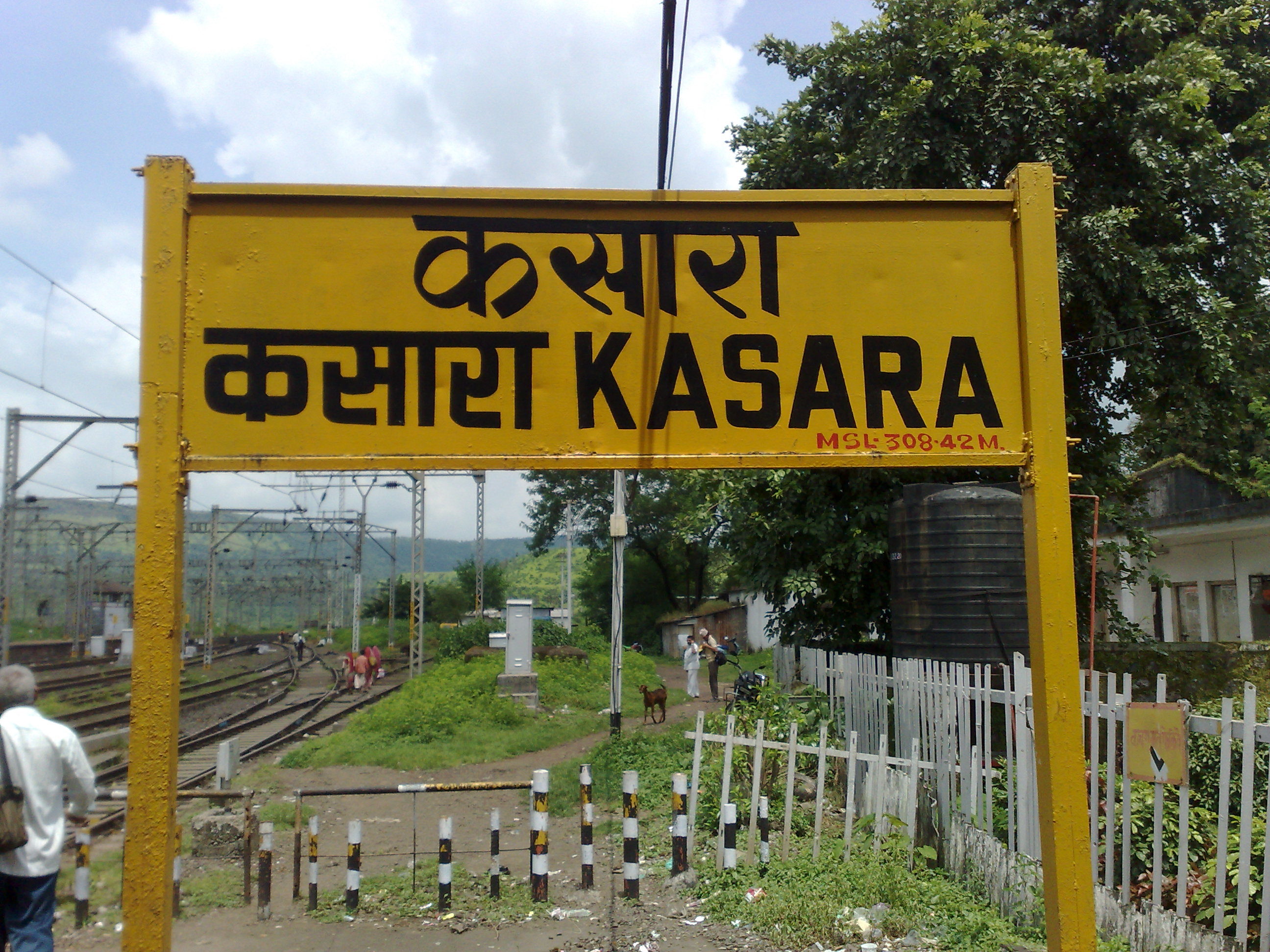 Kasara railway station - Stationboard